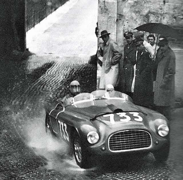 Dorino Serafini and Ettore Salami driving entry #733, a 1950 Ferrari 195 S (#0038M) in the rain during 1950 Mille Miglia automobile race on April 23, 1950.[1] [2]